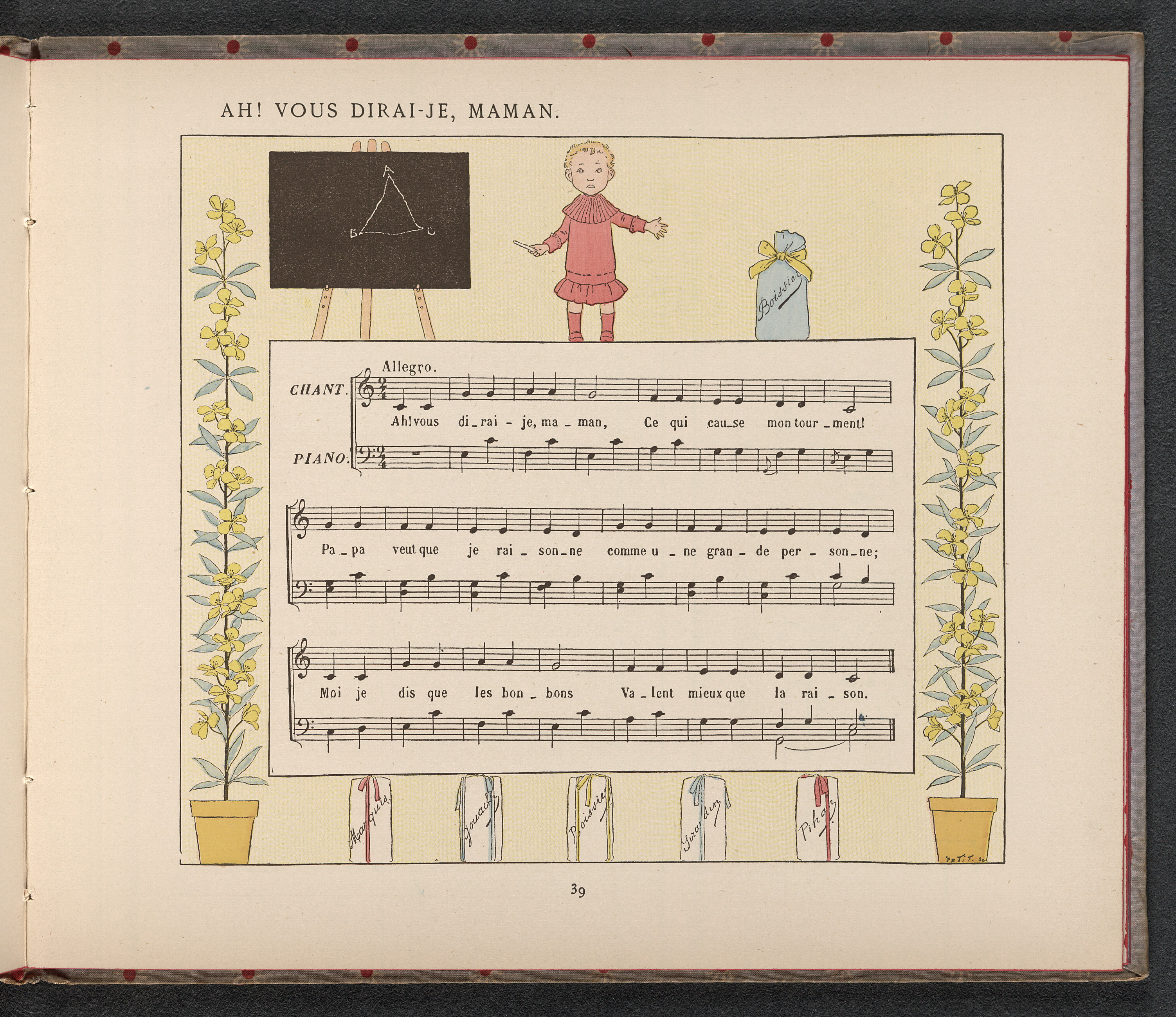 "Ah! Vous Dirai-Je, Maman", sheet music with illustration from a French children's book Vieilles Chansons pour les Petits Enfants: Avec Accompagnements (Old Songs for Small Children with Accompaniments).